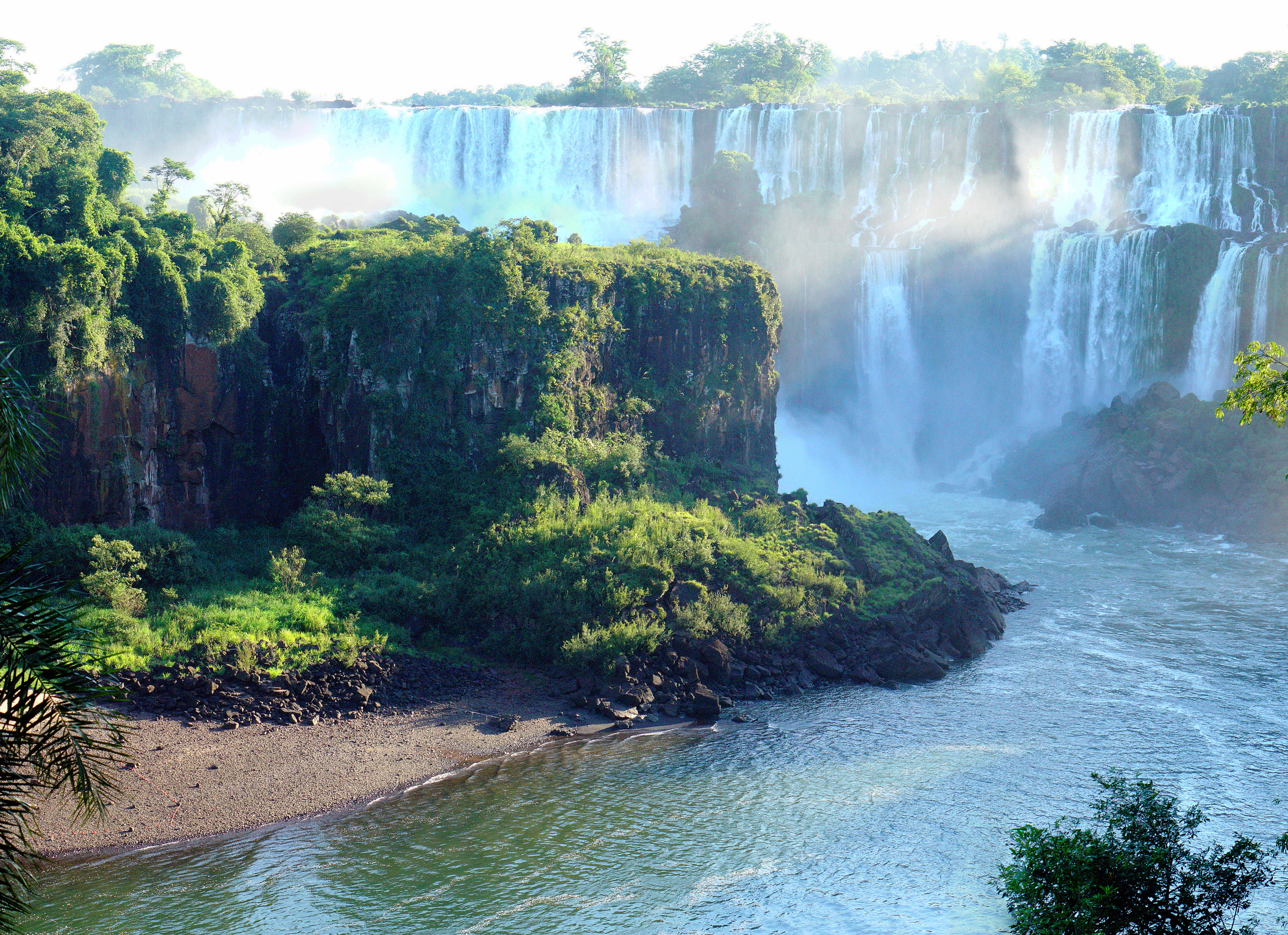 Please, have this description accessible to all by translating it in different languages.